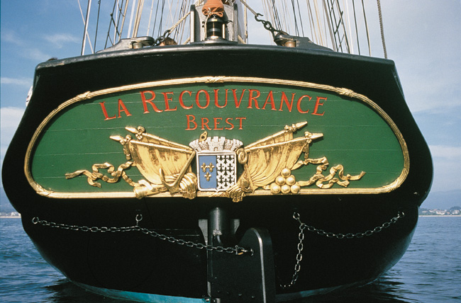 The richly decorated stern of the French schooner La Recouvrance.